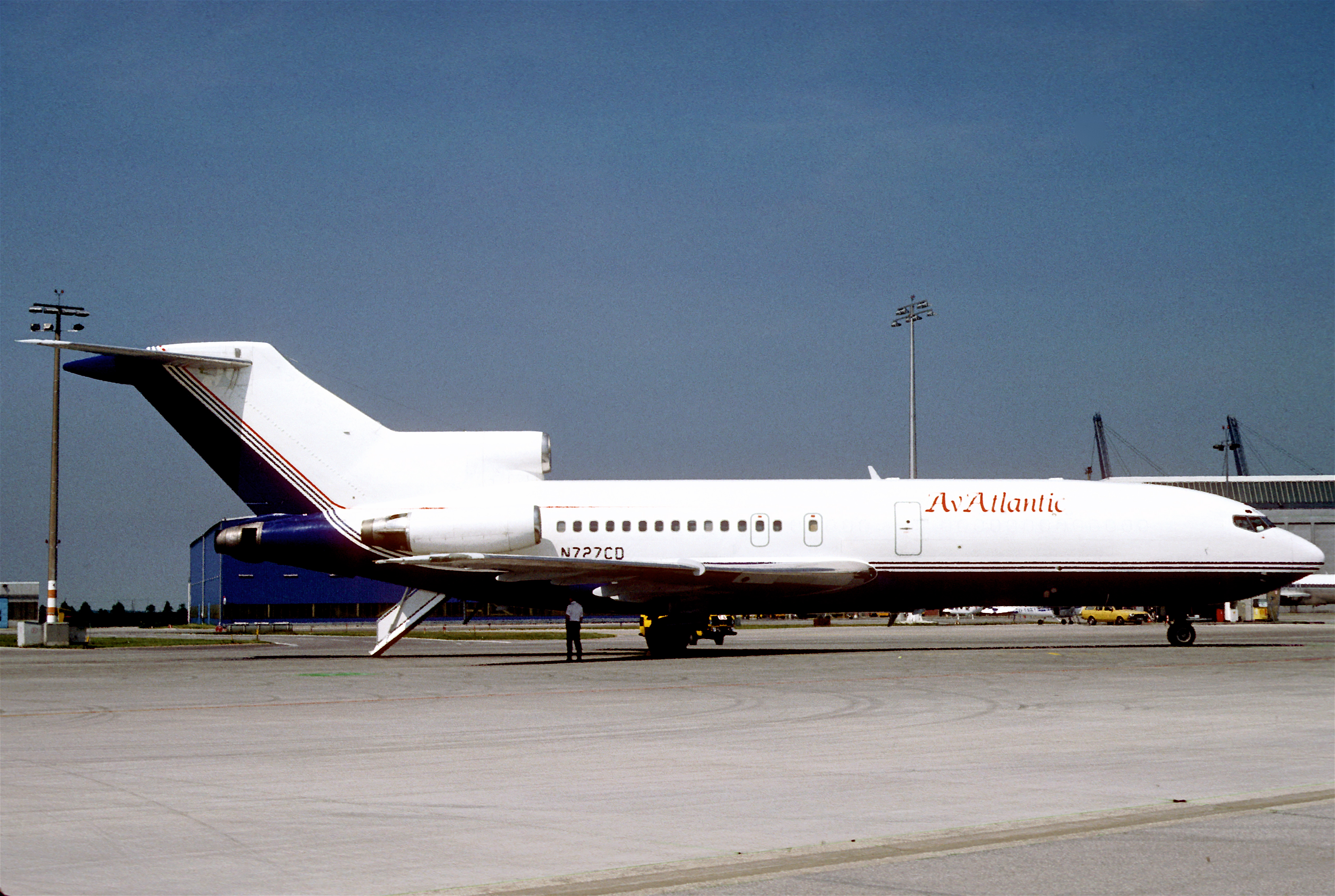 AvAtlantic Boeing 727-22; N727CD@MUC, July 1991